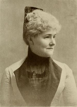 Hannah D. Pittman, Kajiwara Photo, Johnson, Anne (André) "Mrs. Charles P. Johnson", 1871-. Notable women of St. Louis, 1914; (Kindle Location 4402). [St. Louis, Woodward.]